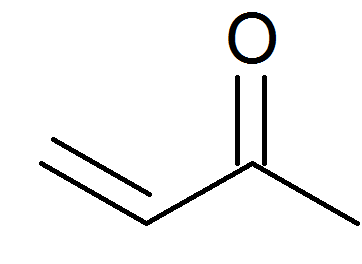 Structure of methyl vinyl ketone